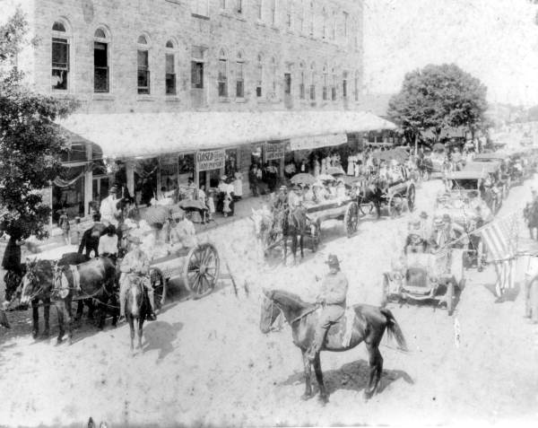 Local call number: Rc21281 Title: Confederate Memorial Day parade on Main Street: Wauchula, Florida Date: 1912 Physical descrip: 1 photoprint; b&w; 8 x 10 in. Series Title: Reference collection General note: Left: mounted, William Brown. Right: mounted, Captain Pringle. Banners on store read "Closed until Saturday, April. Taking inventory." (April 26 was Confederate Memorial Day, which probably explains the bunting-draped wagons, mounted men in Confederate uniforms, and flags in automobiles.) Repository: 500 S. Bronough St., Tallahassee, FL 32399-0250 USA. Contact: 850.245.6700. Persistent URL